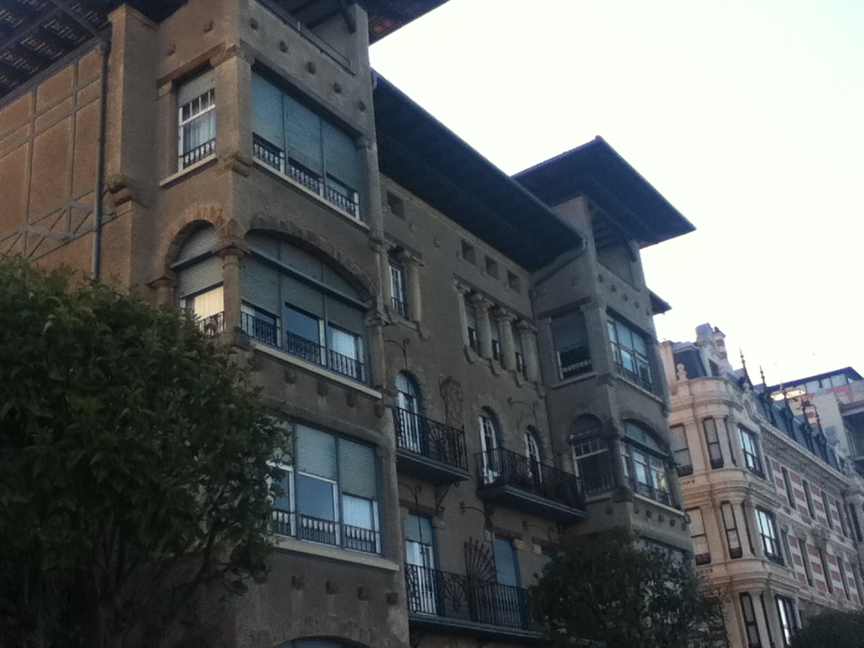 Building at Txurruka dock 60, Portugalete.